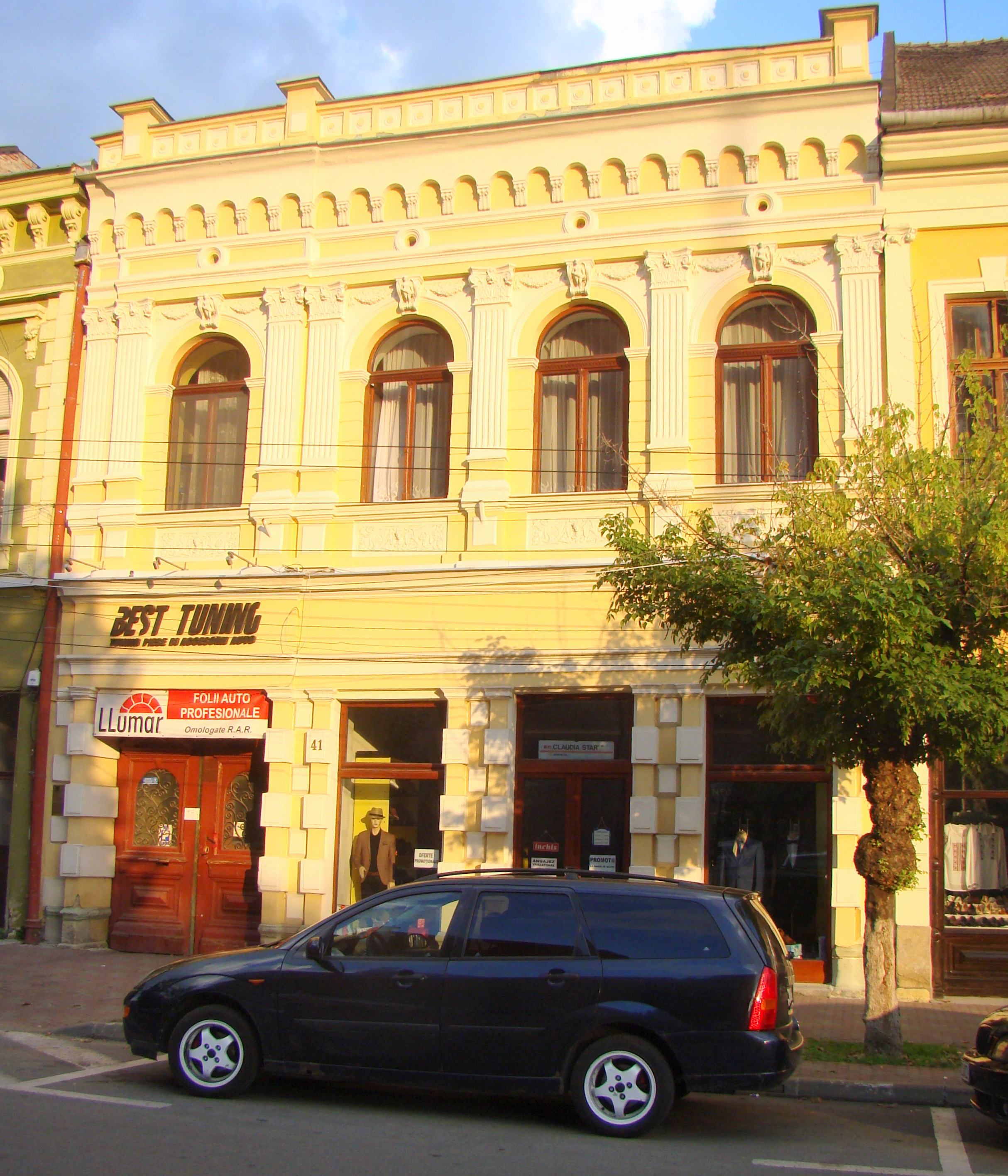 House, historic monument, in Bistrița, Piața Centrală 41